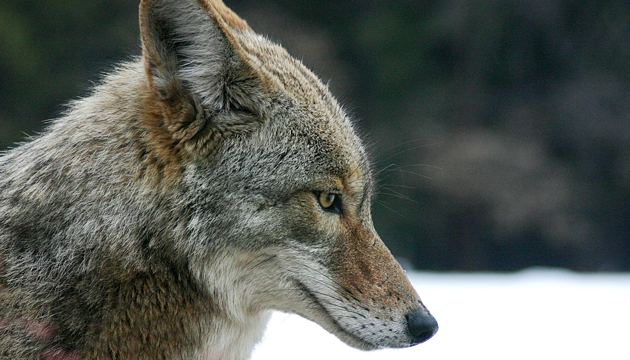 A coyote in Yosemite National Park, California, USA.